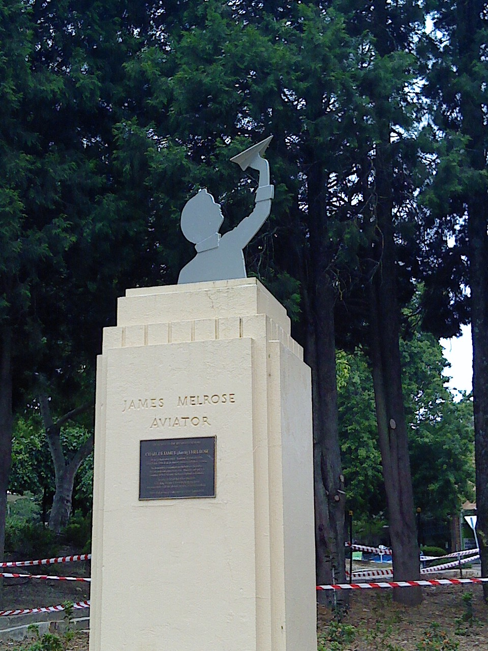 James Melrose aviator memorial in Stirling, South Australia